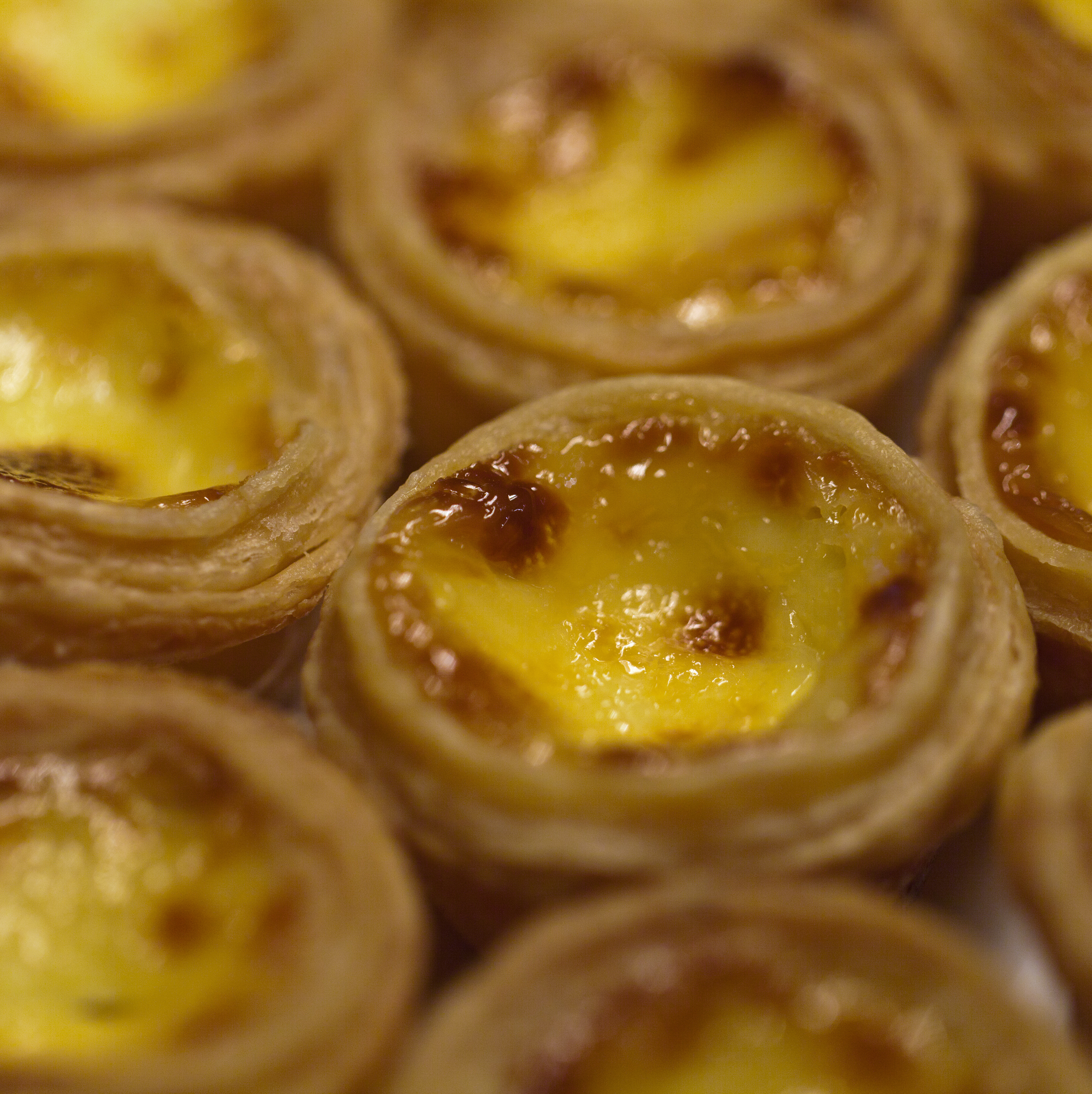 Portuguese-style egg tart in Sheraton Hotel, Hong Kong